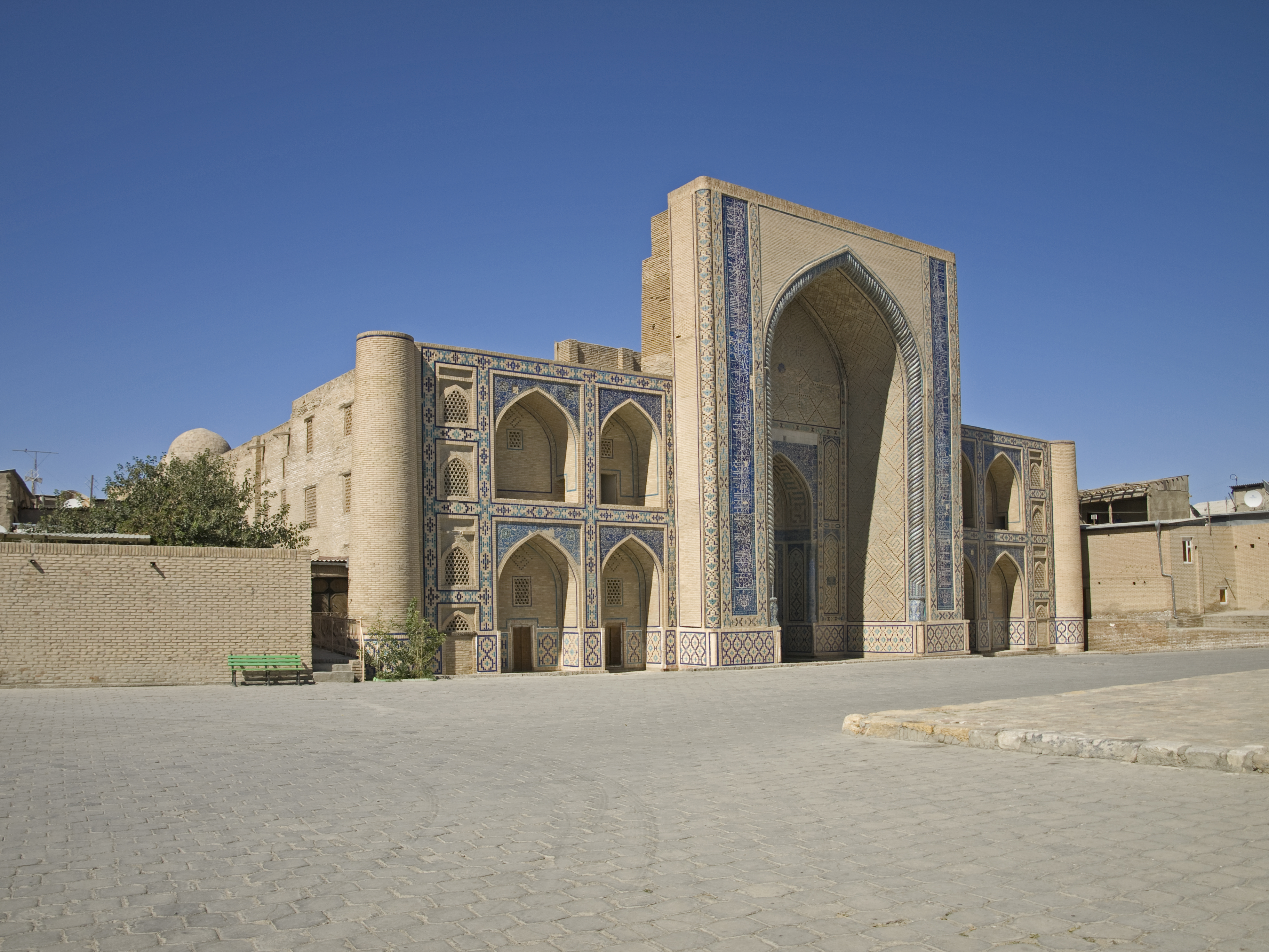 Ulugbek Madrasa from the southwest, Bukhara